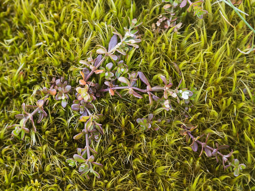 Galium antarcticum, a subantarctic plant in the family Rubiaceae, at Skua Lake, Macquarie Island.